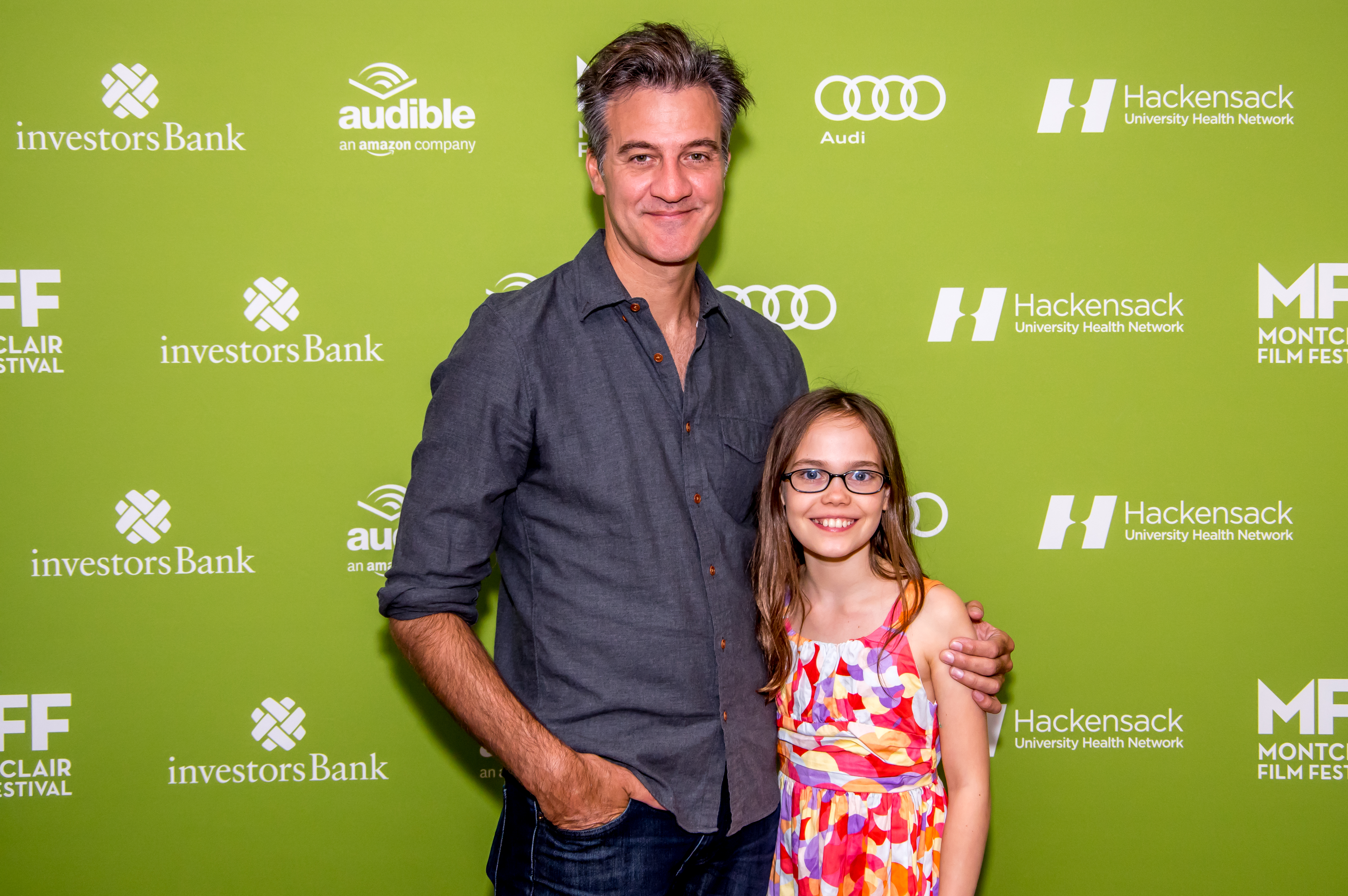 photo by “Ron Travisano / Montclair Film Festival”